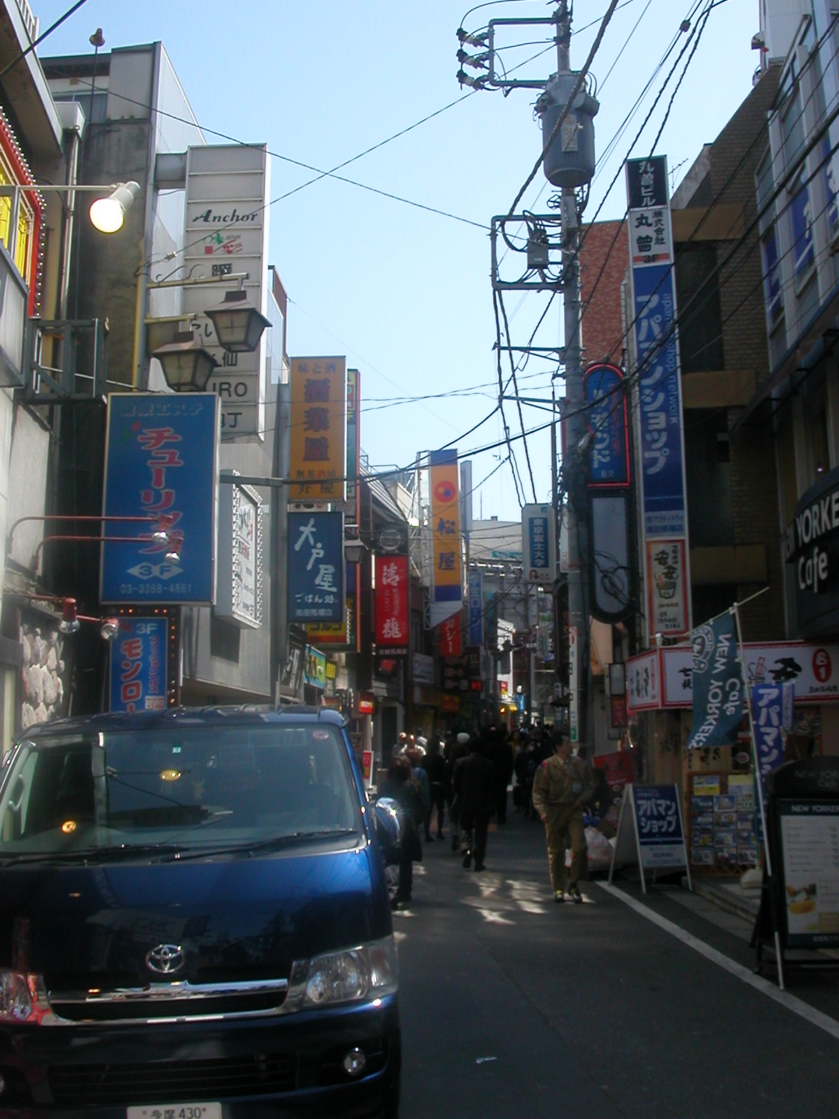 I took this picture myself, while walking through Takadanobaba.